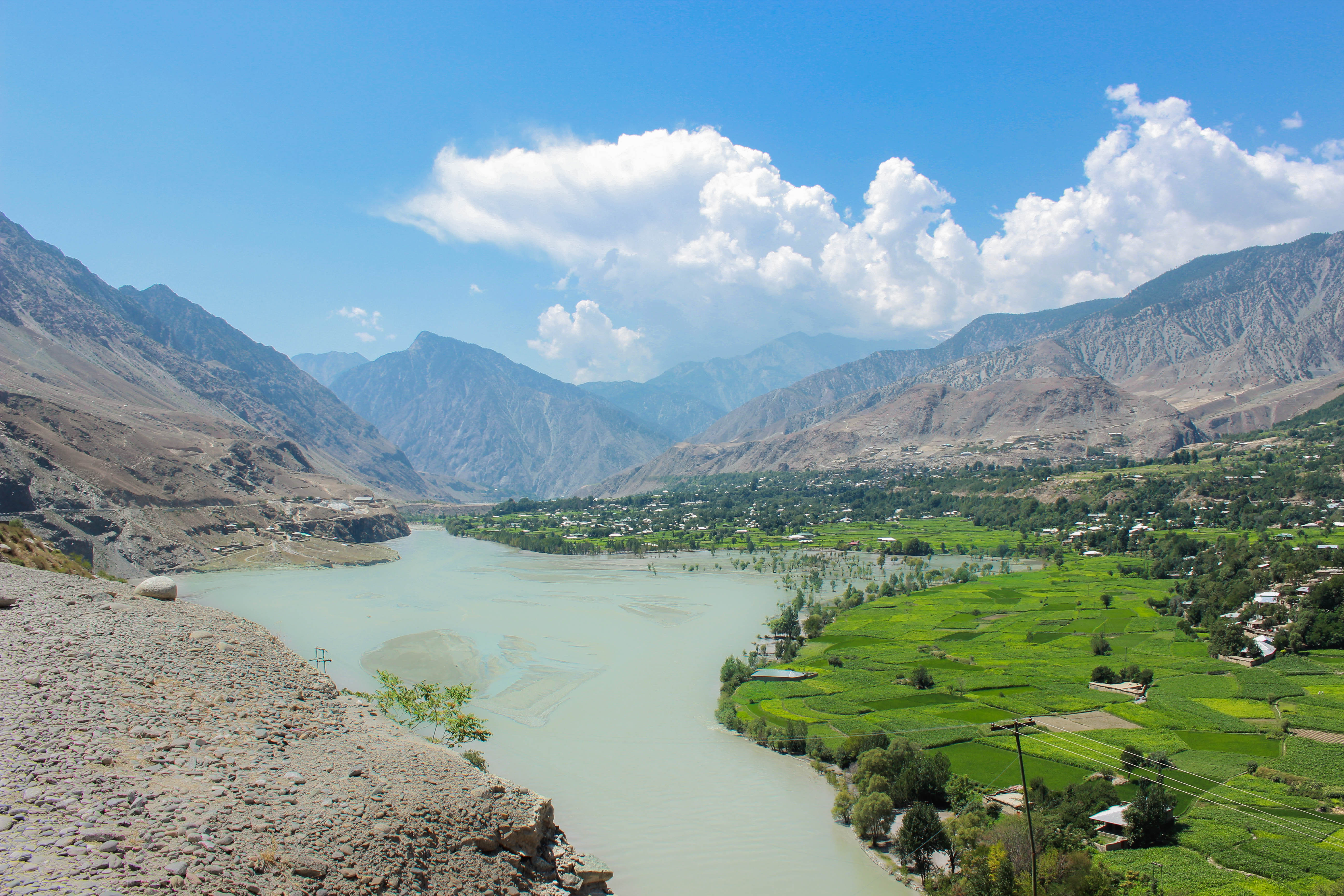 A picture of Ayun Valley